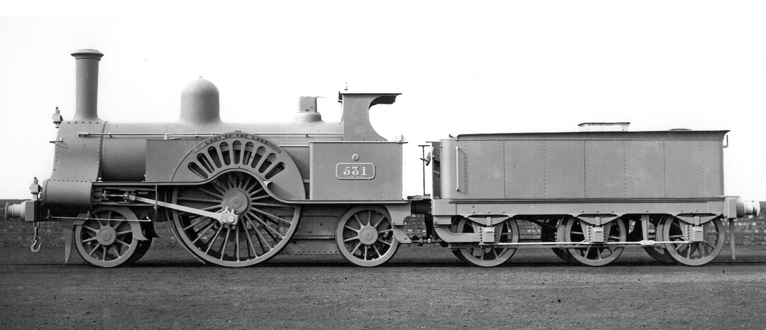 Photograph of LNWR engine No. 531, 'Lady of the Lake'